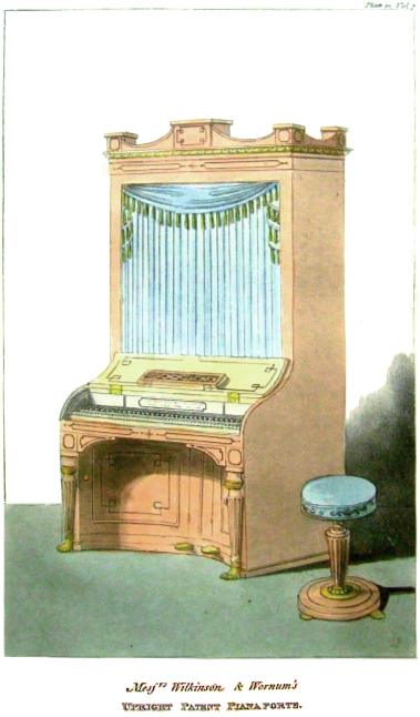 Hand-colored print of cabinet upright piano titled "Messrs. Wilkinson & Wornum's Upright Patent Pianaforte."